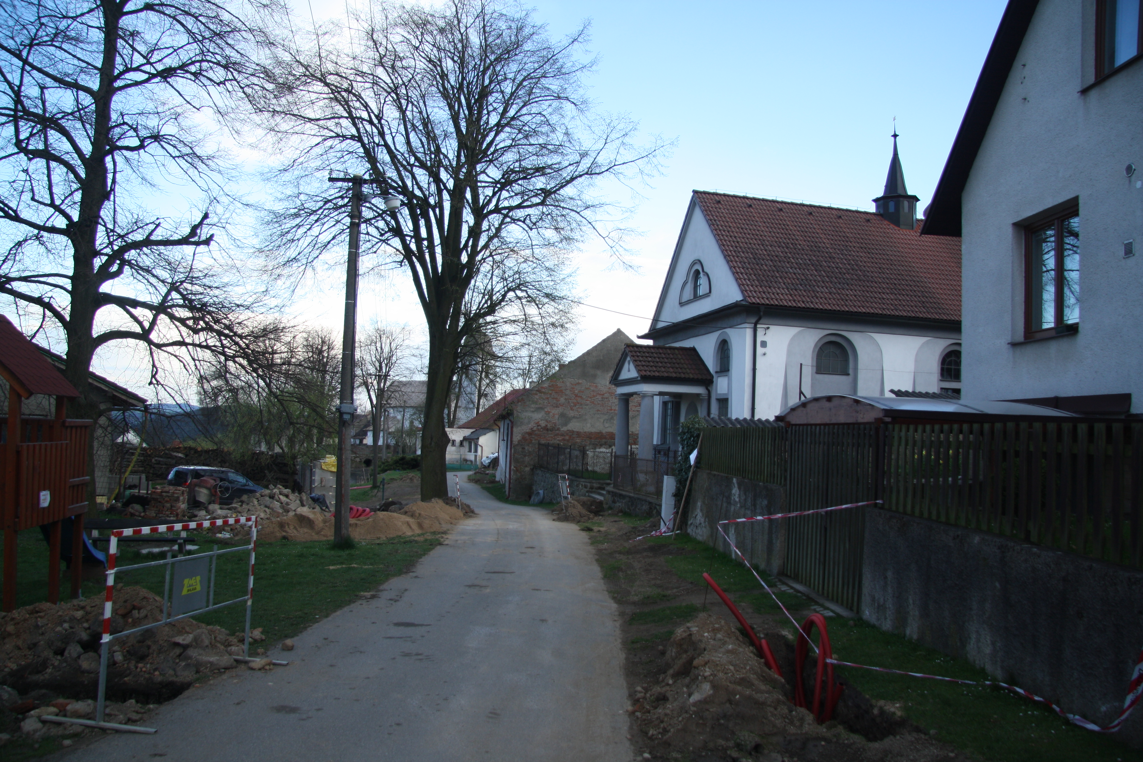 Center of Střížov with evangelical church in Střížov, Brtnice, Jihlava District.